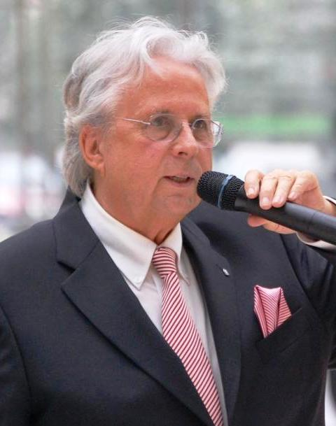 Karl-Heinz Theisen